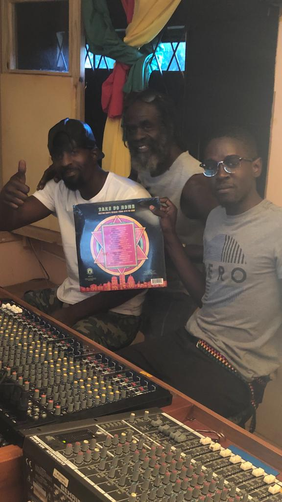 Mento Dah Hermit in the studio , mixing and editing vocals.